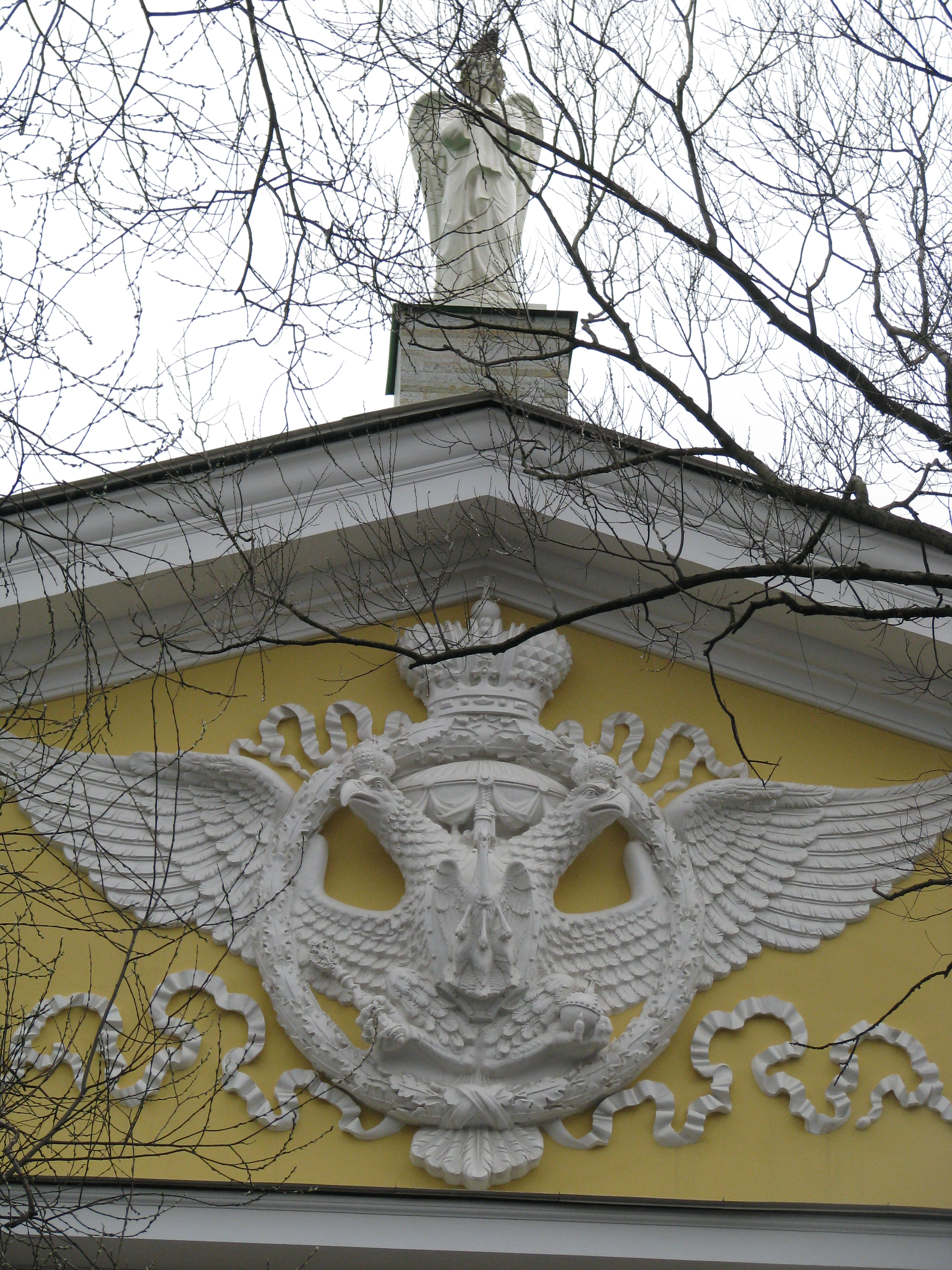 The Combboard of Mariinskaya Hospital (Saint-Petersburg)